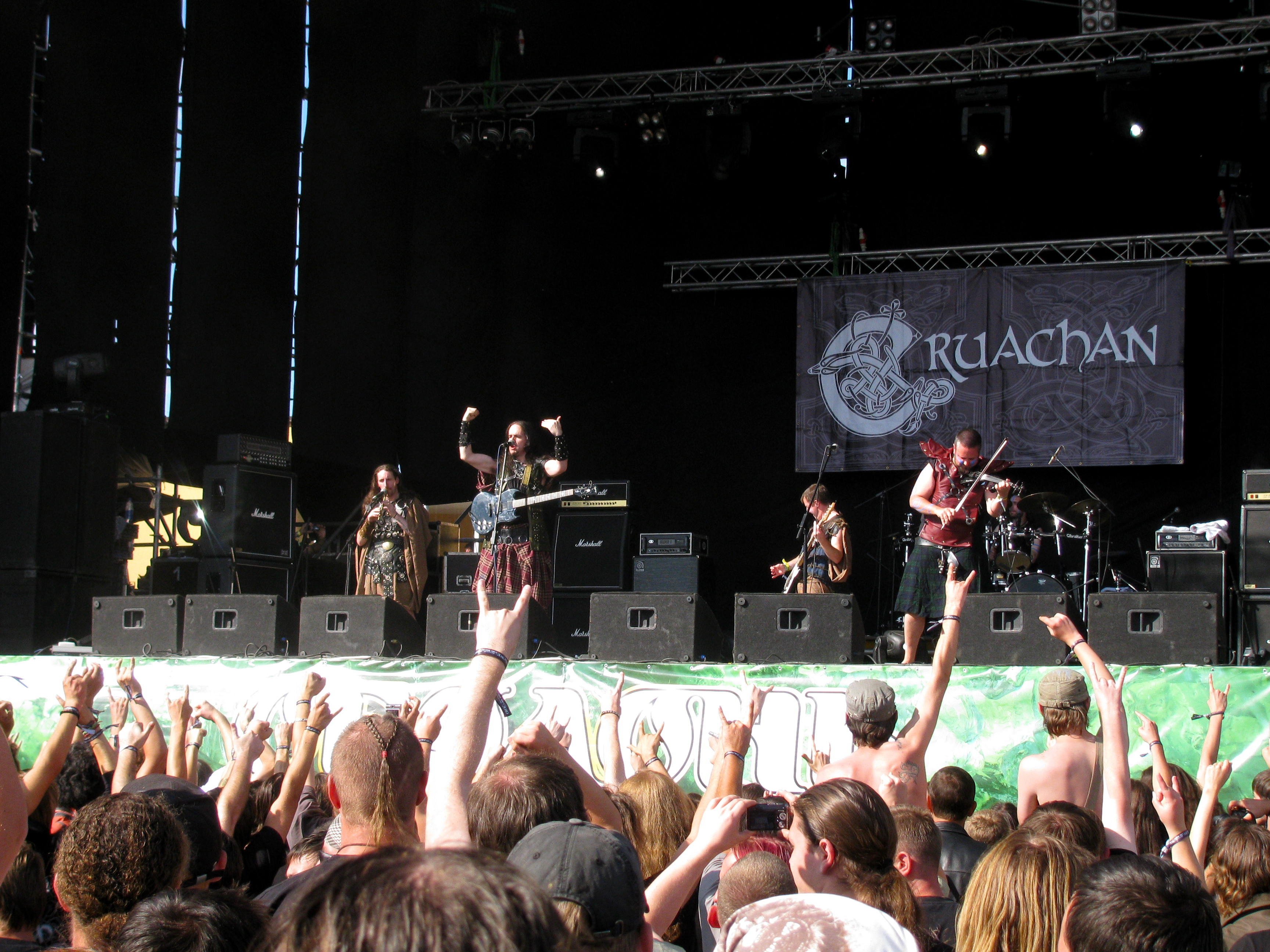 Cruachan playing at Global East Rock Festival 2010